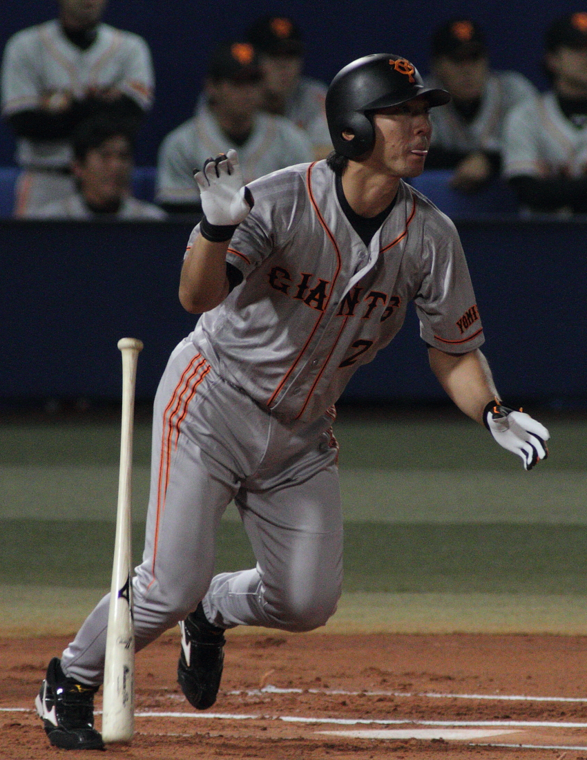 Michihiro Ogasawara, infielder of the Yomiuri Giants, at Yokohama Stadium.